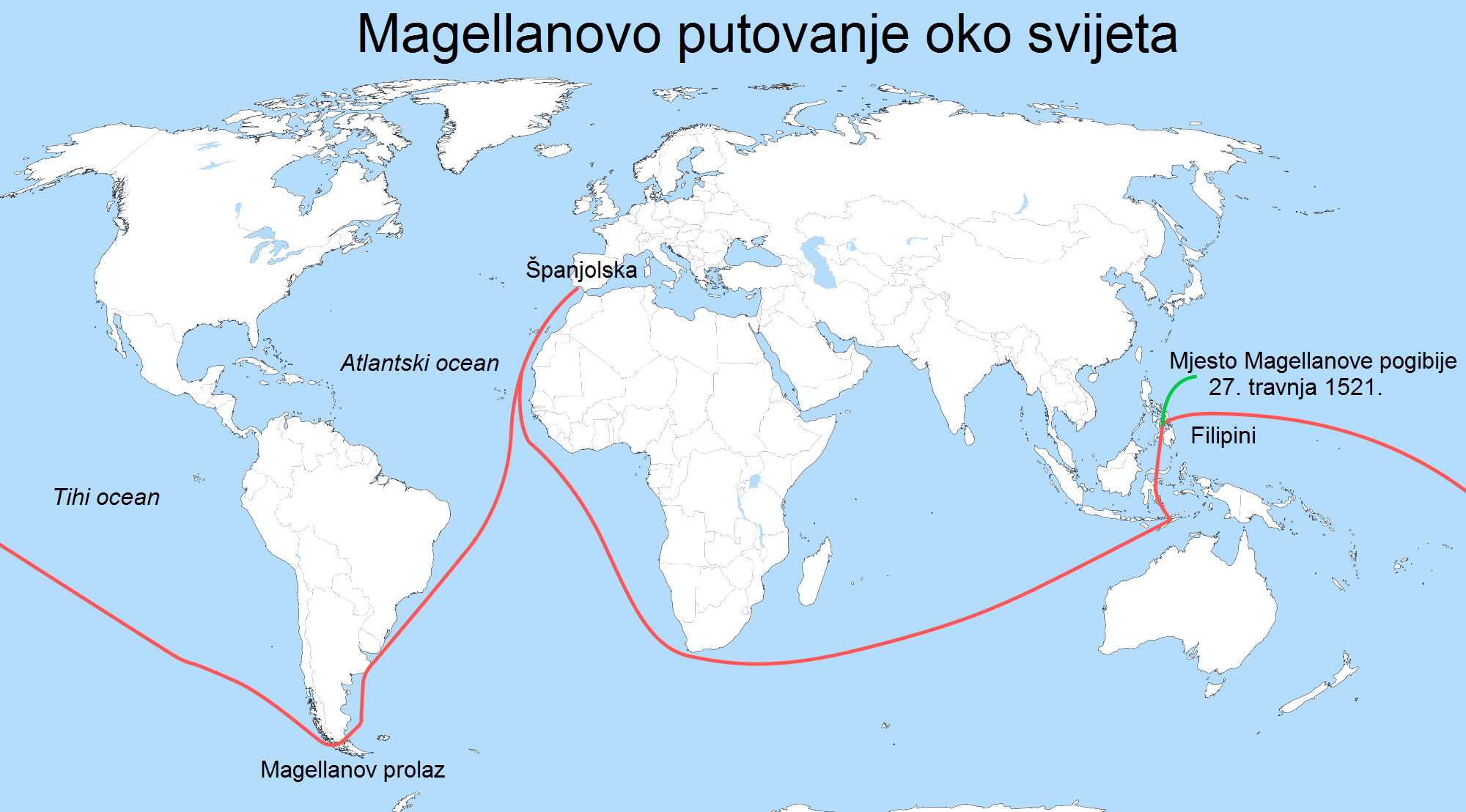 Map of Ferdinand Magellans voyage around the world Croatian text